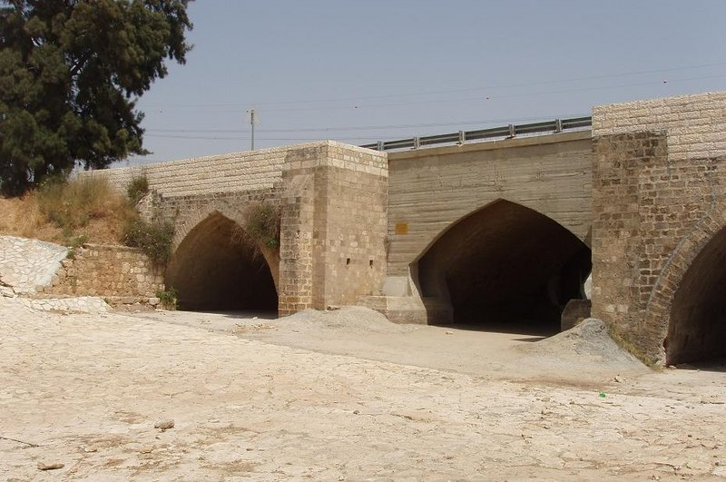 Ad halom bridge, near the city of Ashdod, Israel.